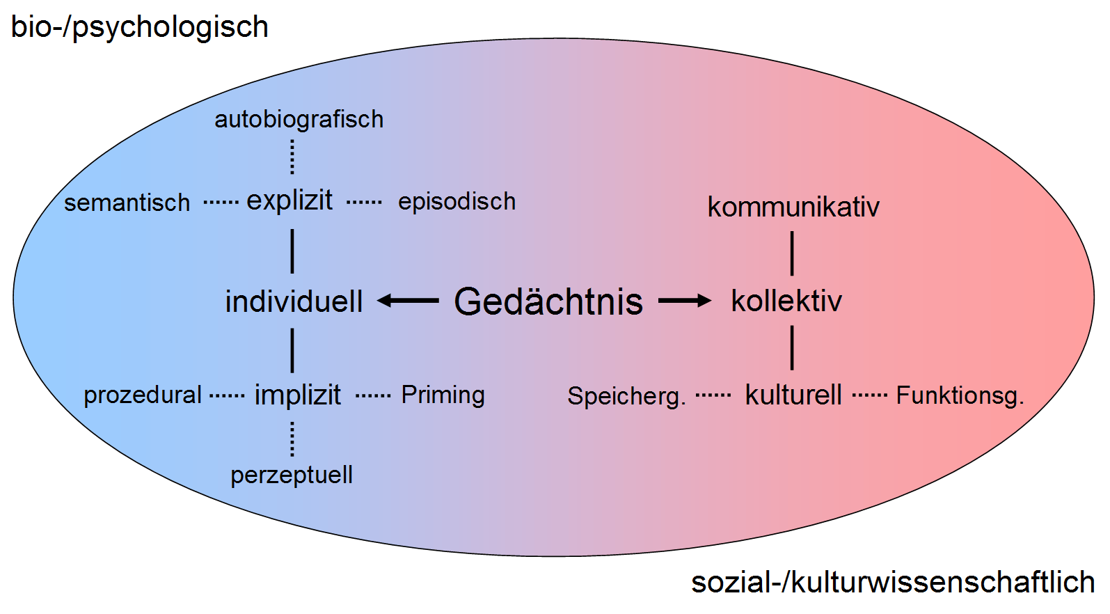 This schema gives a detailed overview of terms commonly used in literature on memory, both individual and collective.